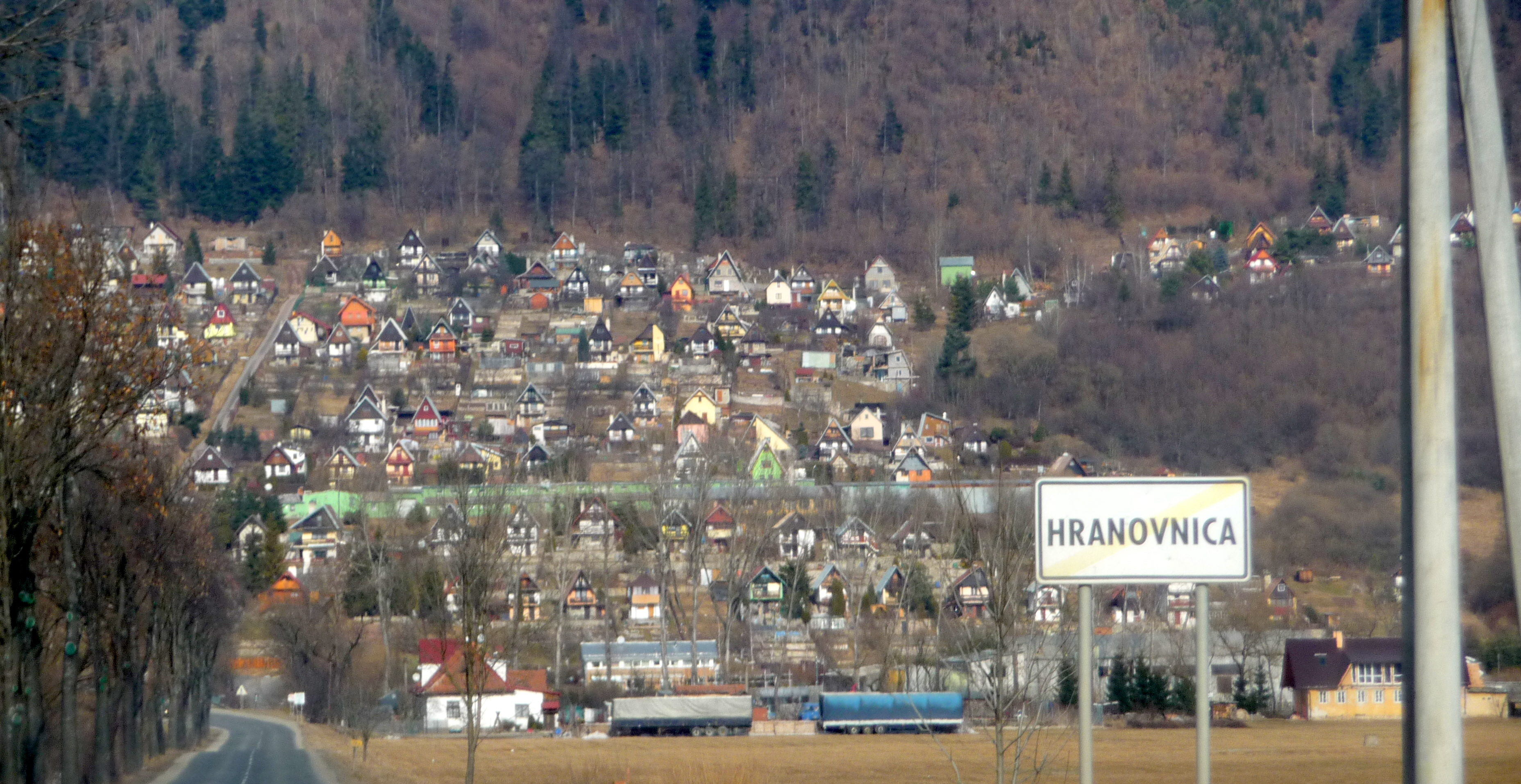 End of municipality Hranovnica, view to country cottages colony